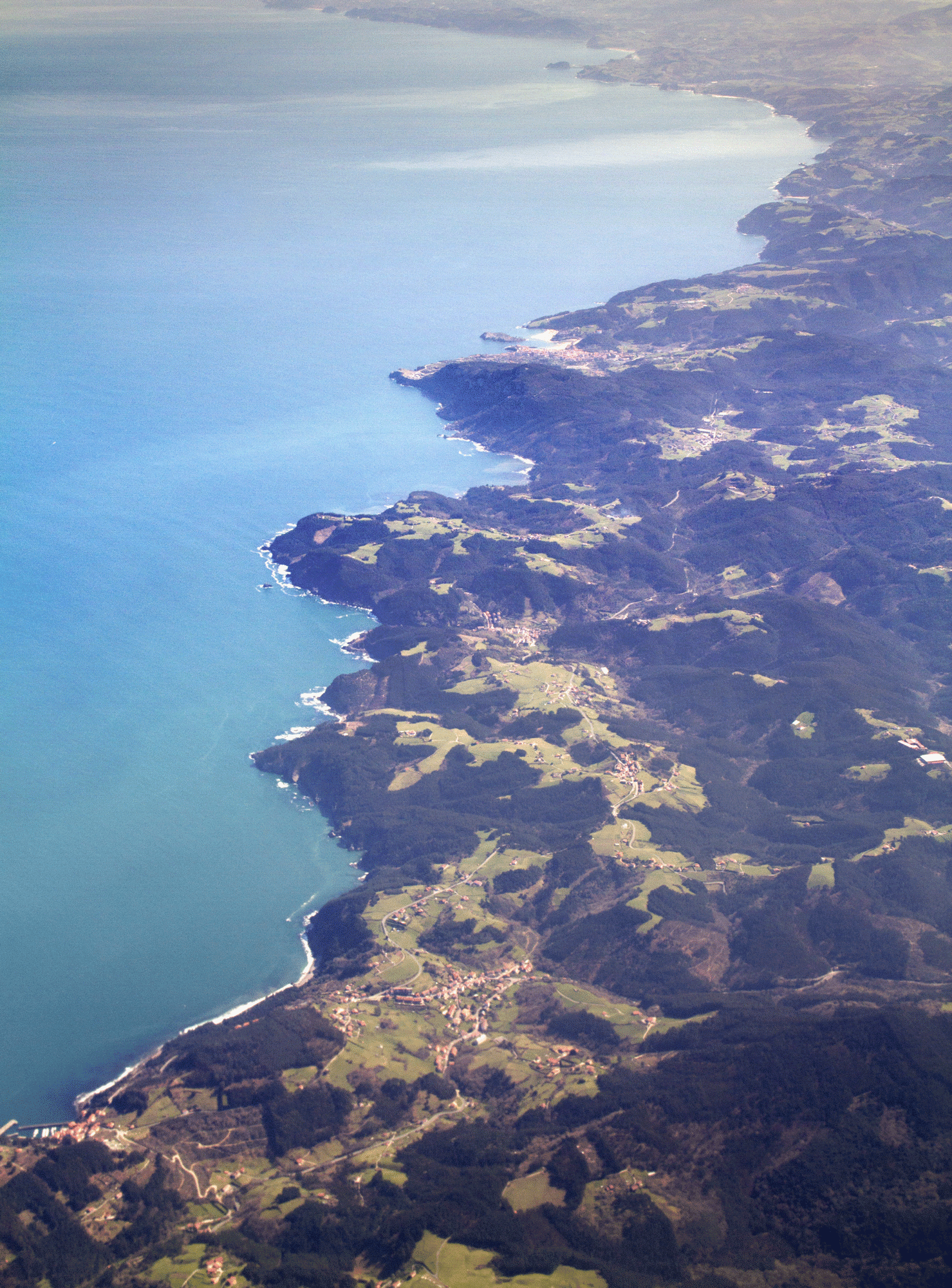 Aerial view of coast of Biscay